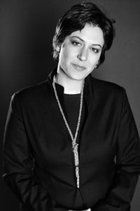 Portrait of Paula Slier